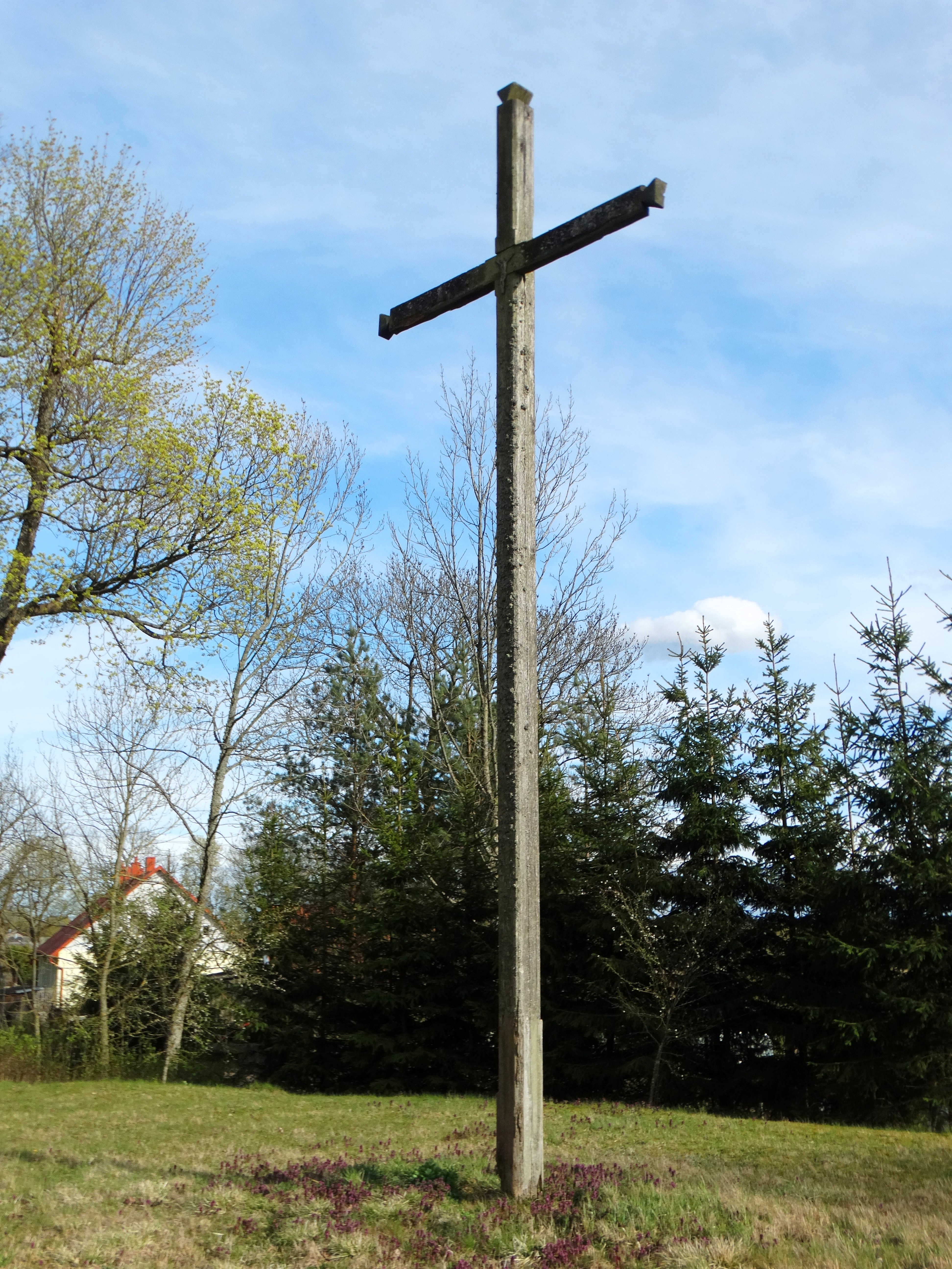 Memorial cross for the Lutheran Churchh, Viešvilė, Jurbarkas District, Lithuania